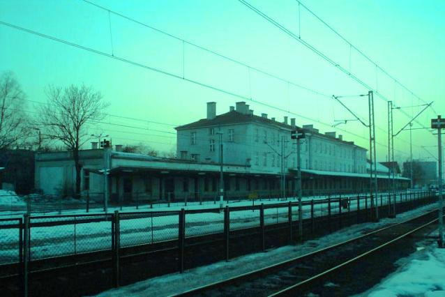 Jaworzno Szczakowa railway station